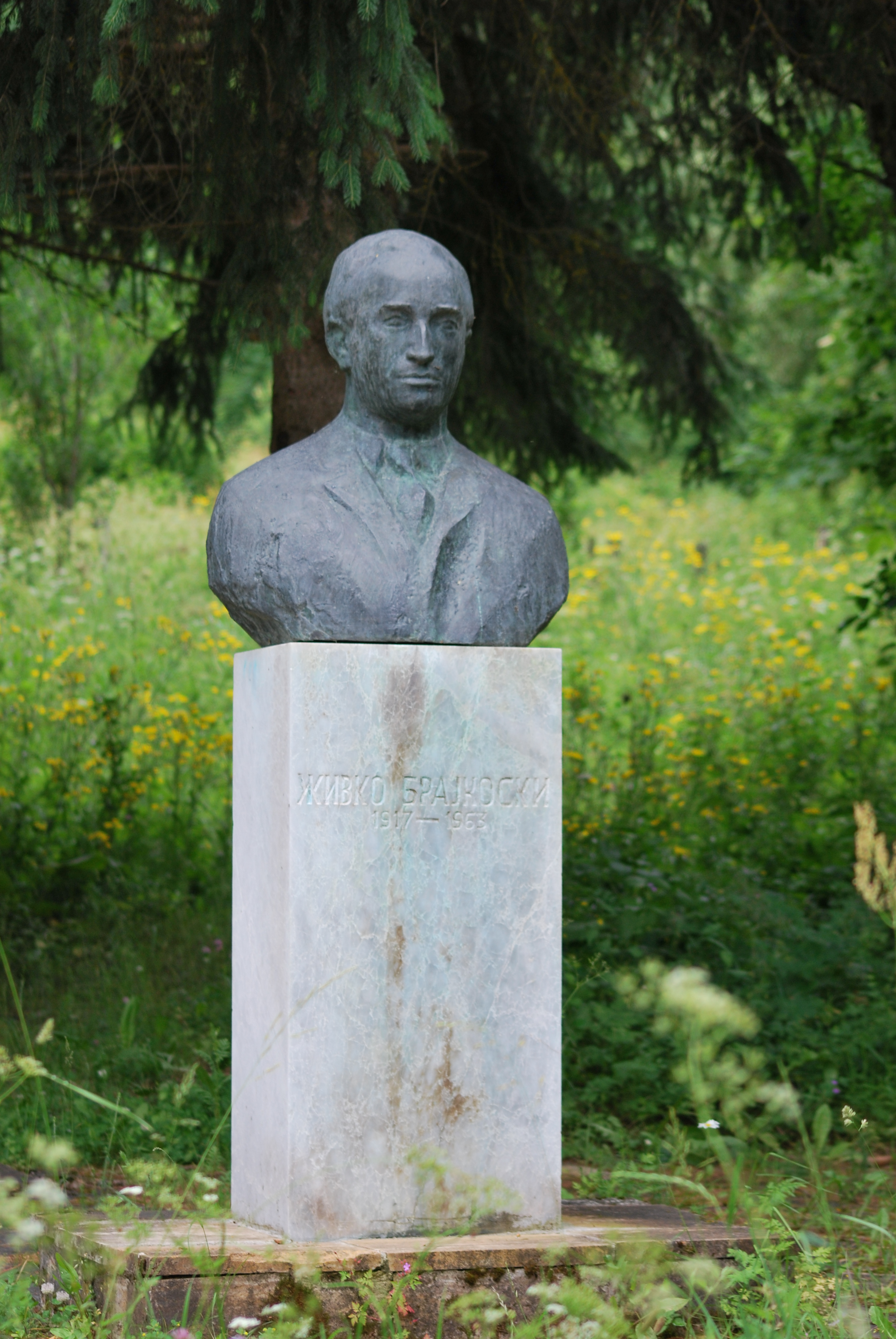 ITrnica, Macedonia